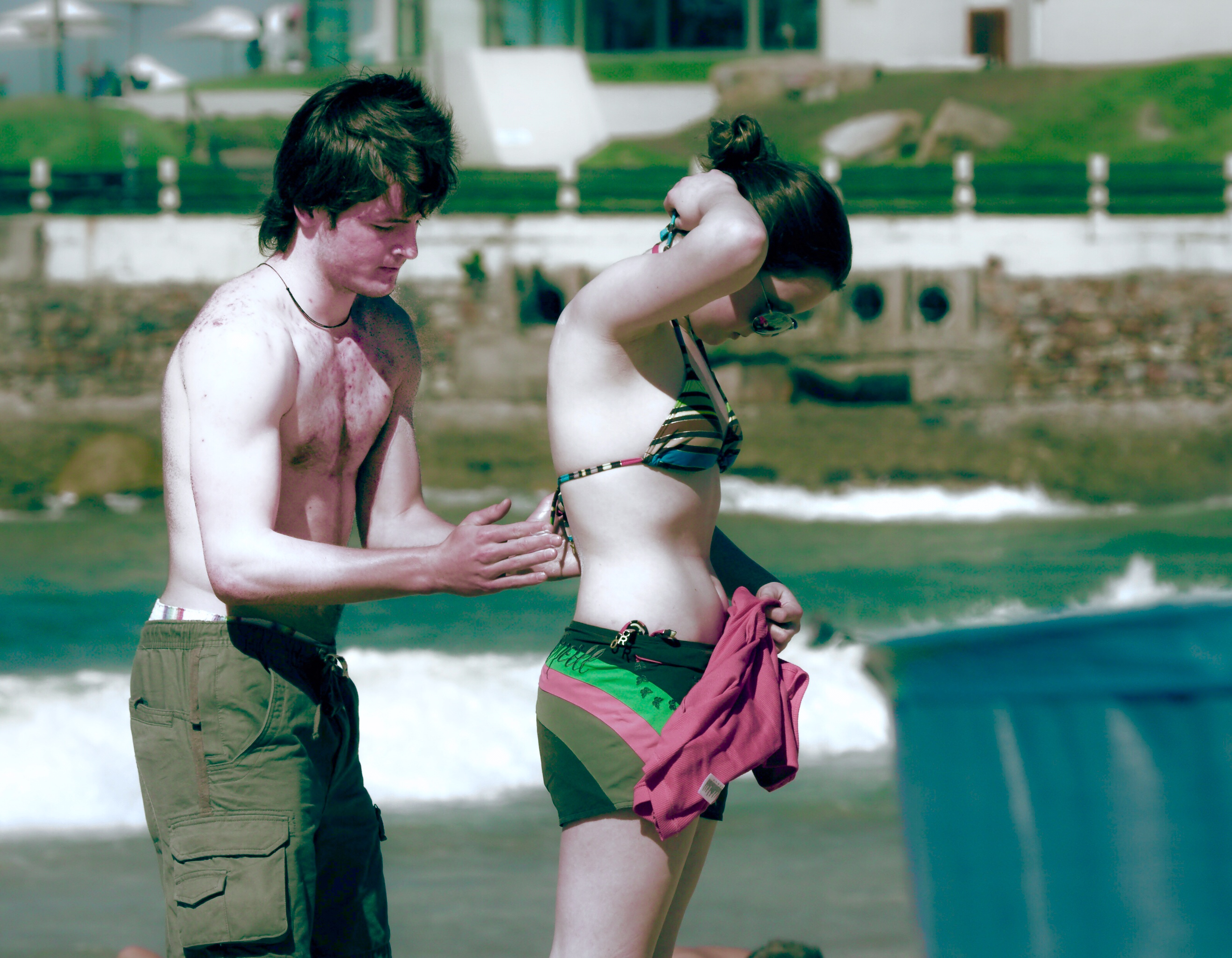 A sunbather trying to avoid tan lines and possibly too much UV radiation by having sunscreen applied to her back.